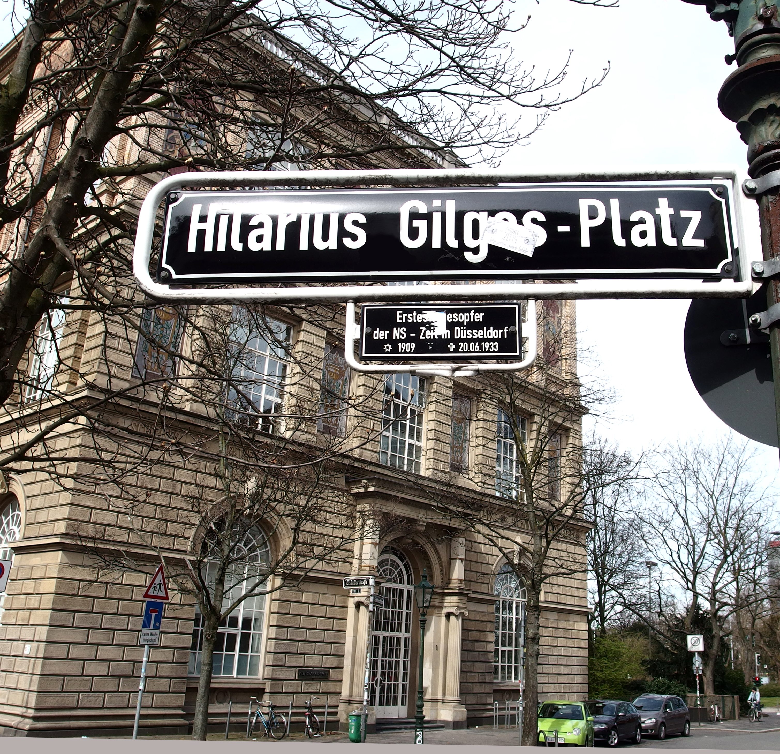 Hilrarius Gilges Place